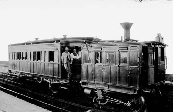 Rowan Car No.2